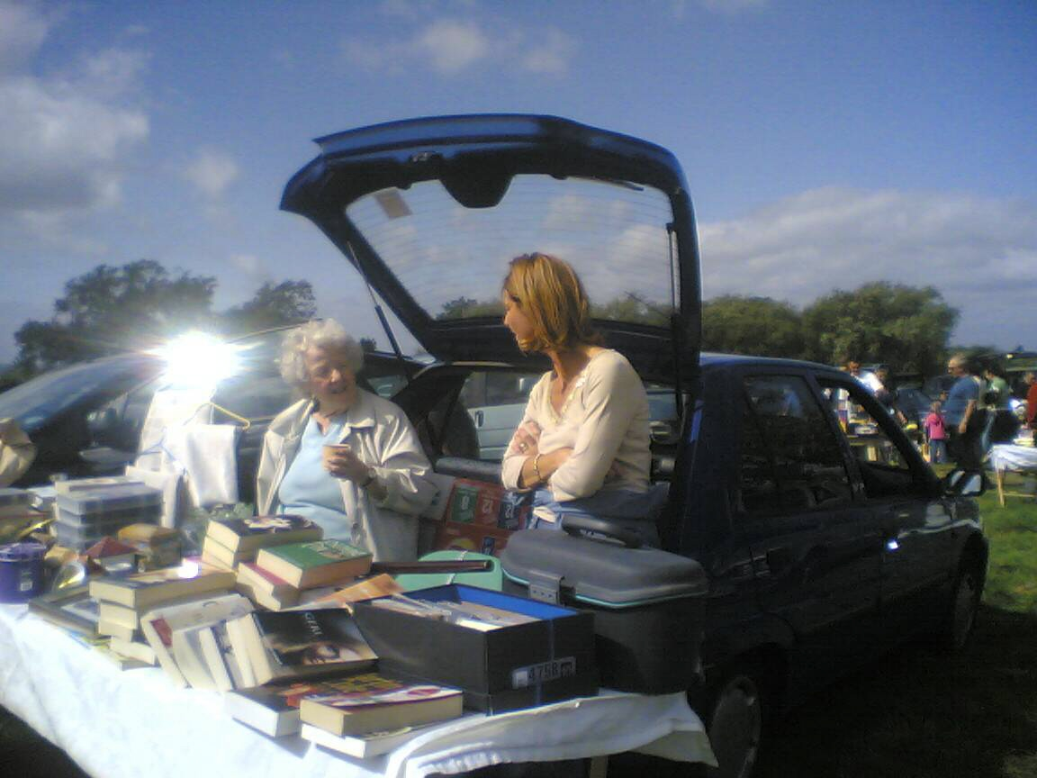 A Car boot sale in the County of Worcestershire UK in the summer of 2006